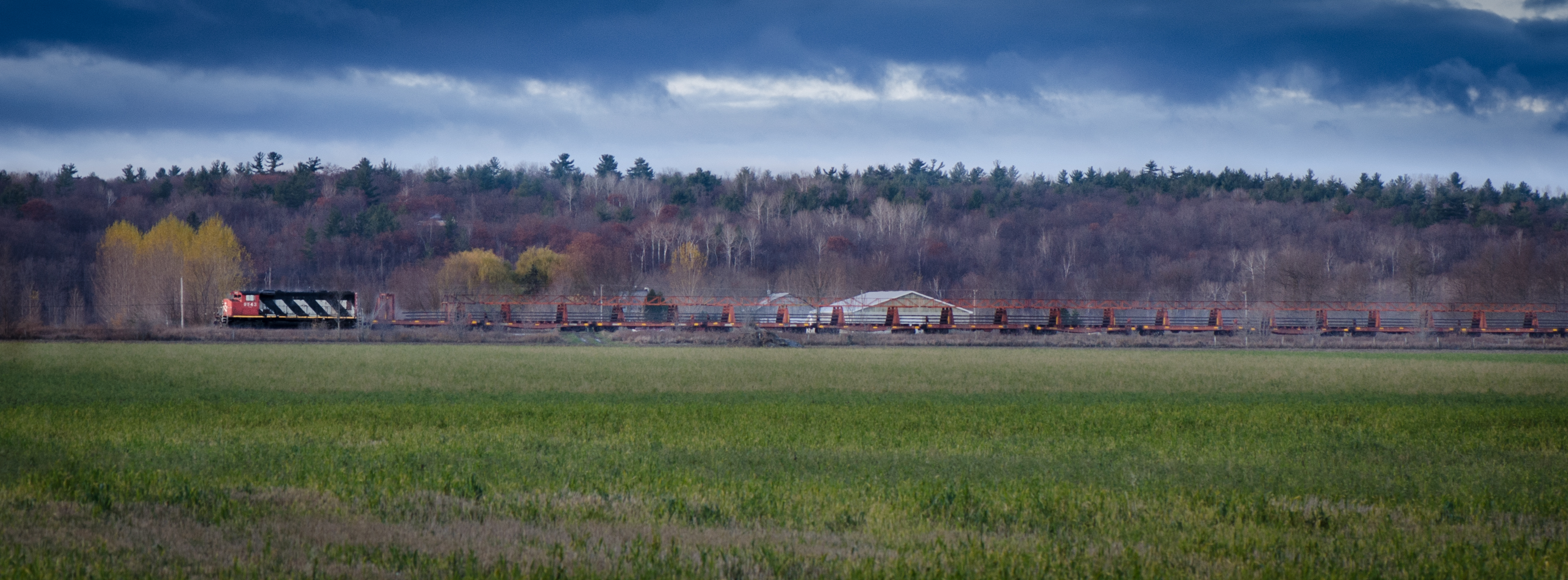 Last days of the Beachburg Subdivision, with Carp Hills in the background.